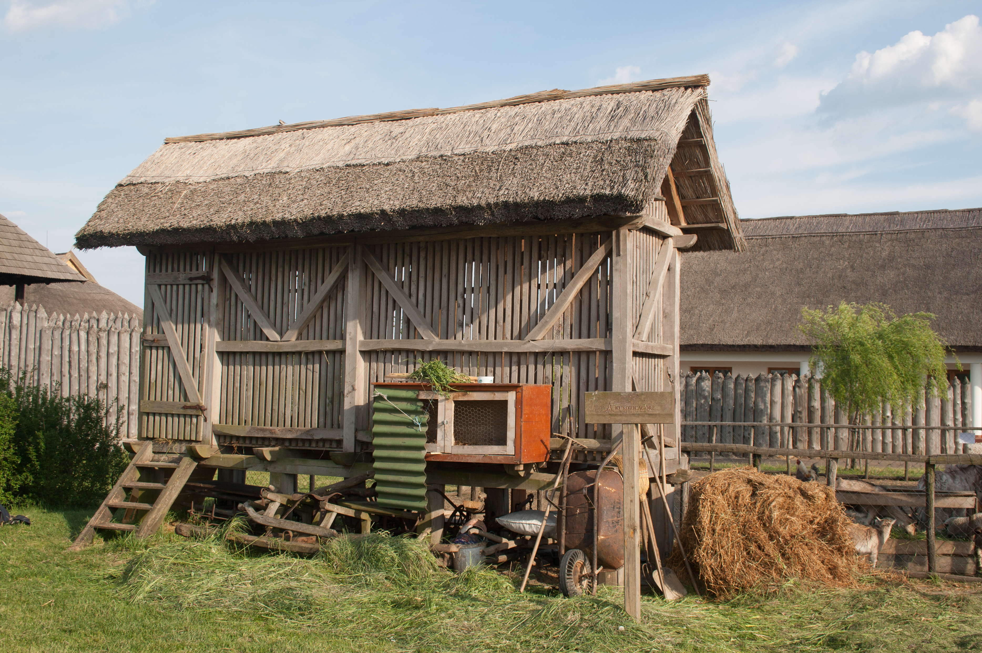 Barn for storing maize